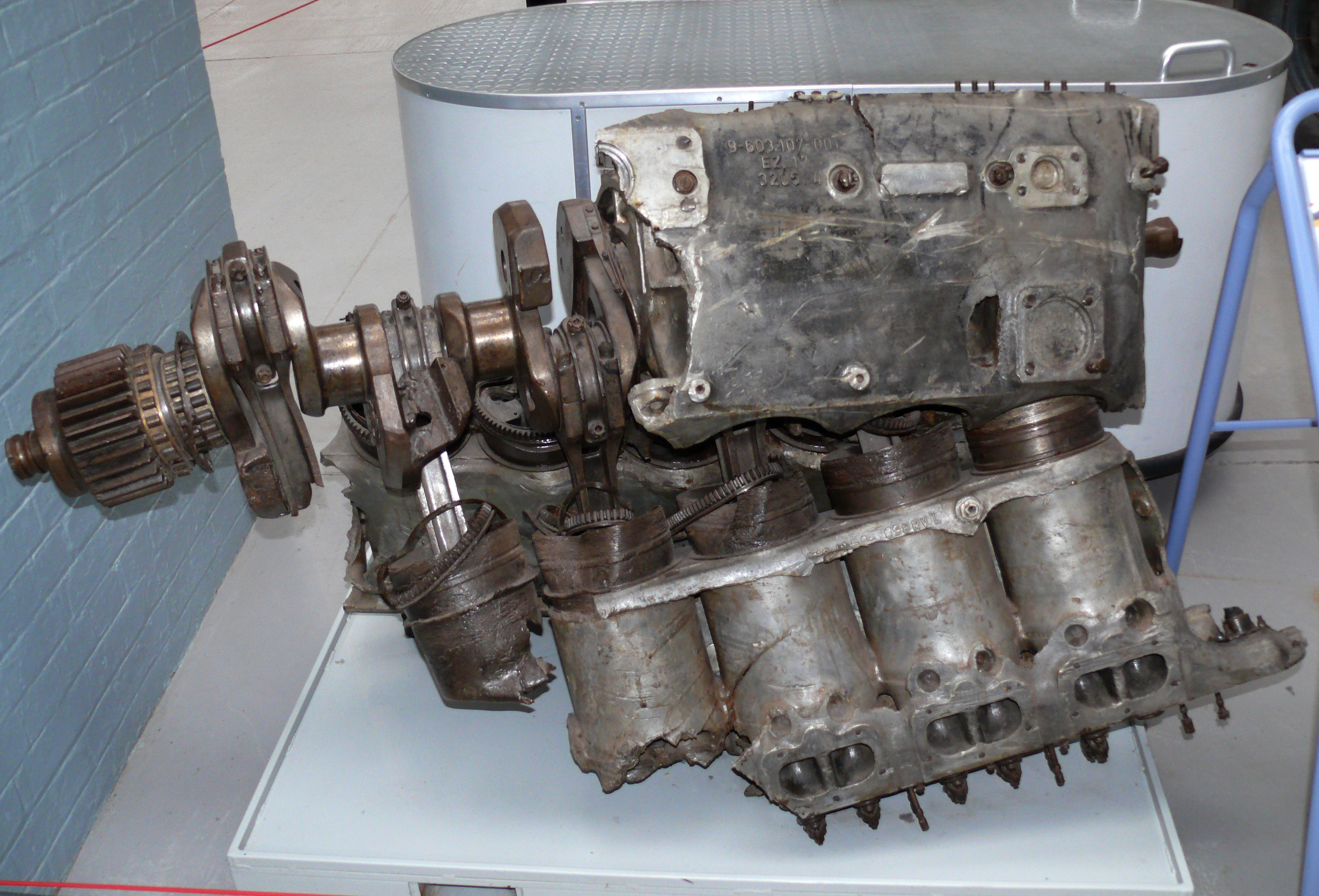 This particular engine was pulled from the crash site of a German WWII Dornier Do 217m in Essex in 1976. The aircraft took part in an attack on London on 21-22 January 1944. It was hit by anti-aircraft fire as it passed over the Thames estuary and crashed, killing its crew of four. General Engine Characteristics * Type: 12-cylinder liquid-cooled supercharged inverted Vee aircraft piston engine * Bore: 162 mm (6.38 in) * Stroke: 180 mm (7.09 in) * Displacement: 44.5 L (2,715 in³) * Length: 2610.5 mm (102.8 in) * Diameter: 830 mm (32.7 in) * Dry weight: 920 kg (2,030 lb)